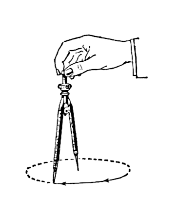 line art drawing of compass.